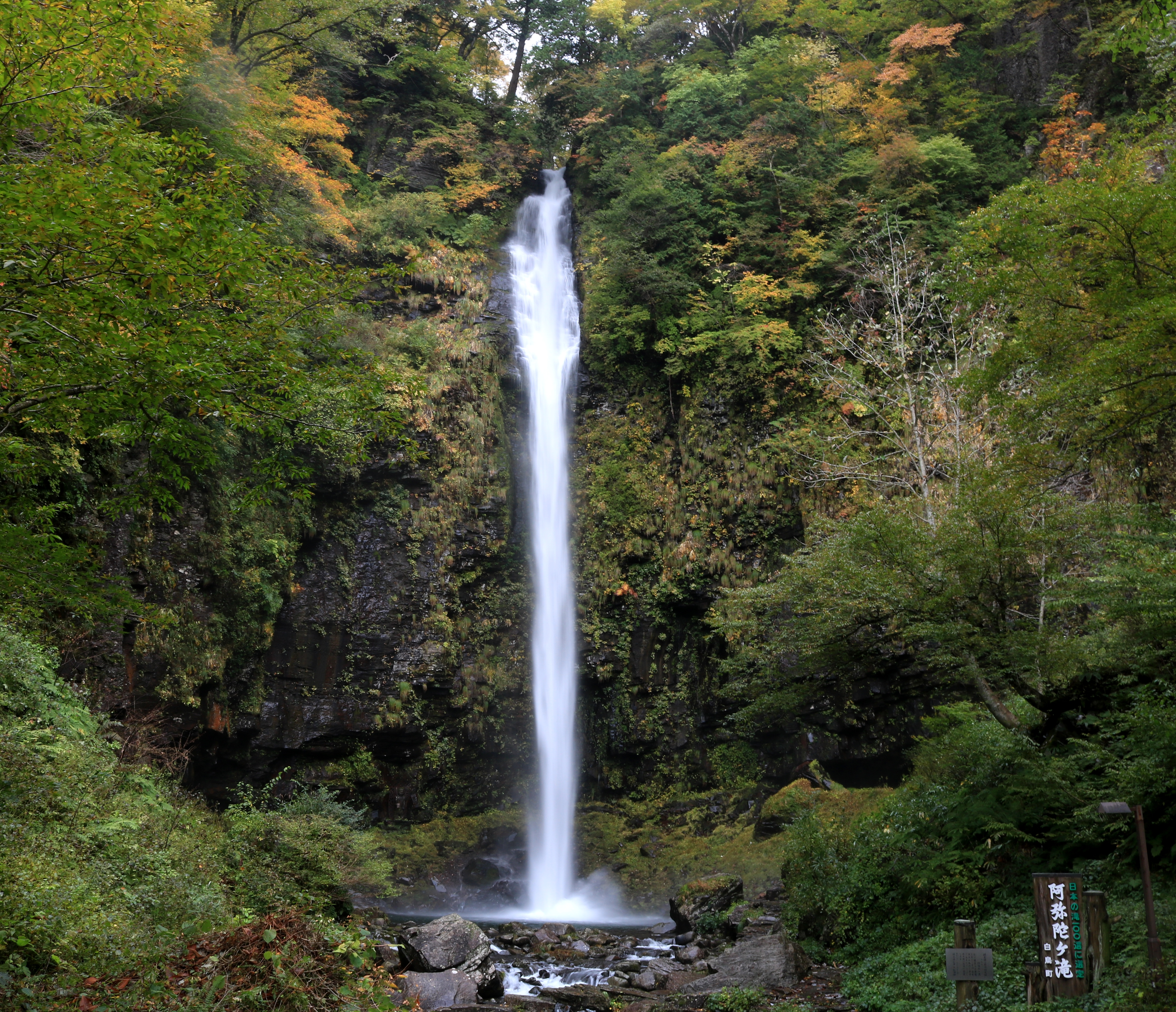 Amidaga Falls (Amidagataki) in Maetani, Gujō, Gifu Prefectue, Japan.